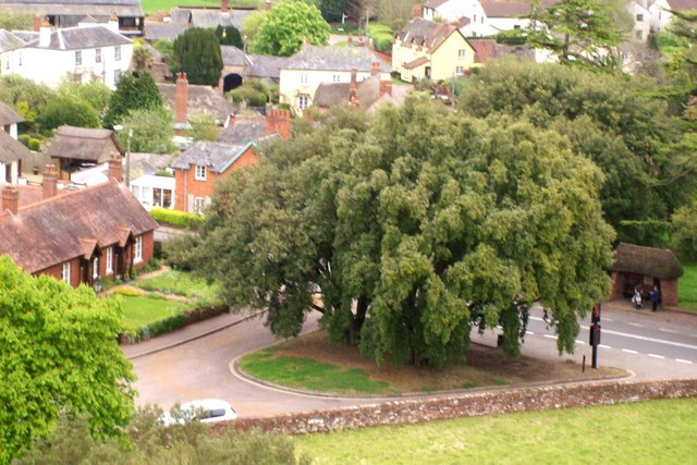 Broadclyst Original description: Broadclyst village centre